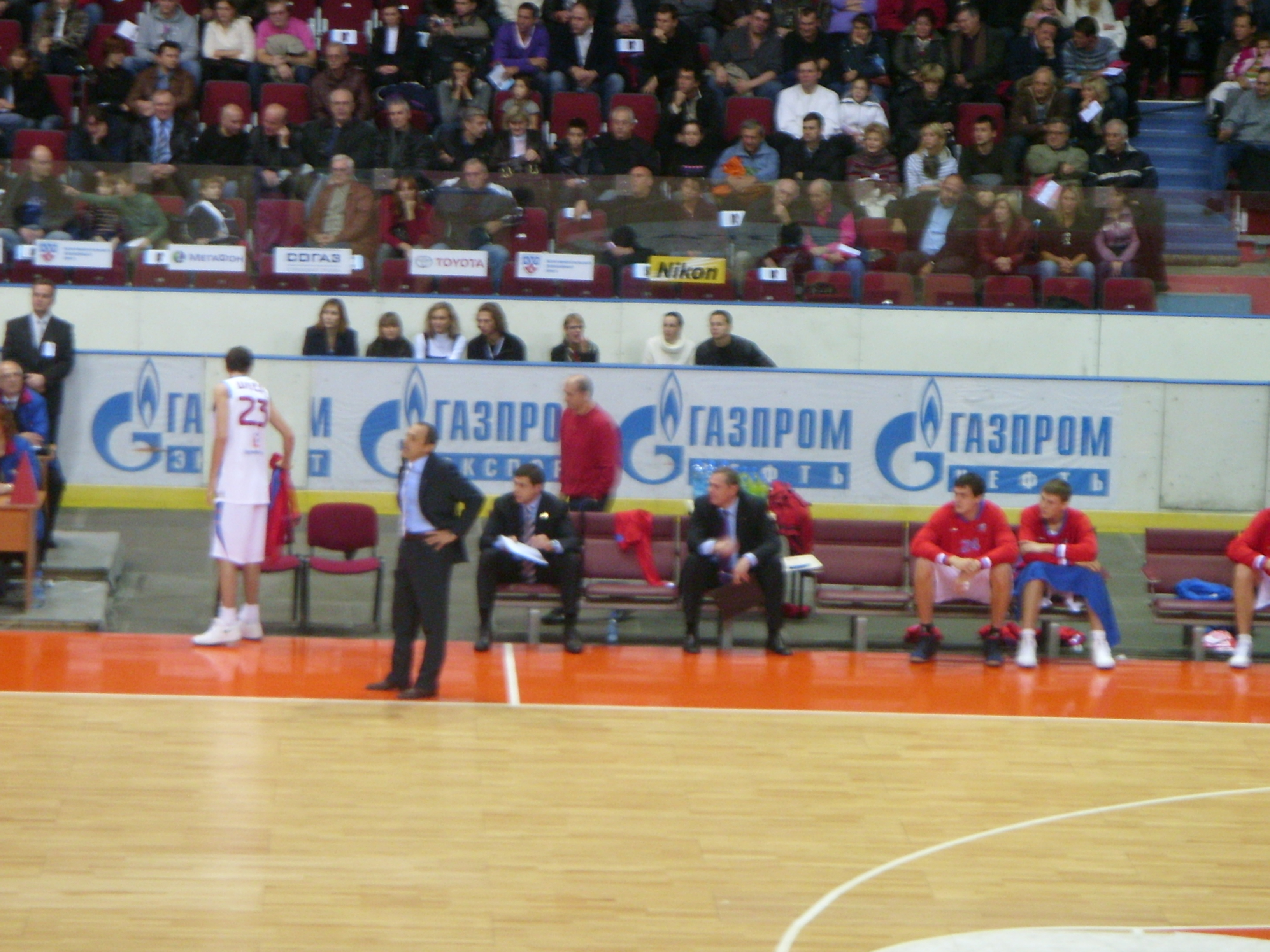 Russian Basketball Super League match in Yubileynyy Sports Palace, Saint-Petersburg, Russia. BC Spartak SPb VS PBC CSKA Moscow.